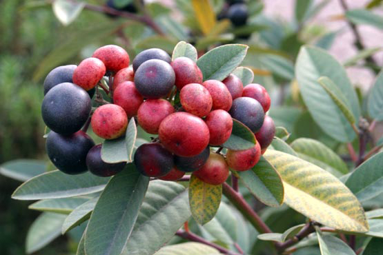 Frangula californica, formerly Rhamnus californica — California coffeberry. With ripening fruit in Spring.